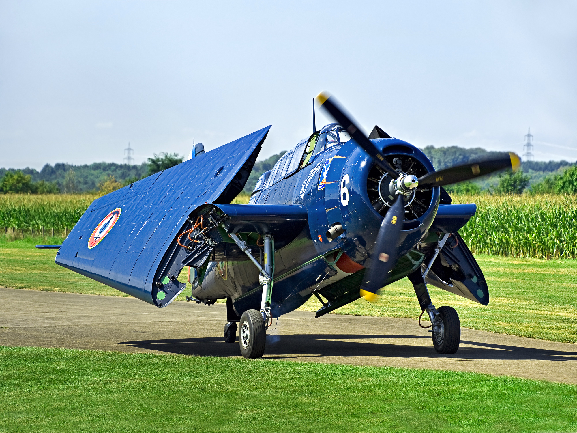 Grumman Avenger TBM, during the airshow "OTT 2011" at the Airfield Hahnweide, Germany